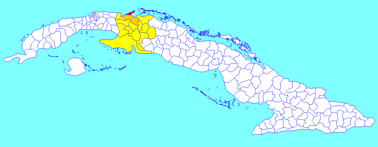 A map of the municipality of Varadero (shown in red), disestablished in 2011, within the Province of Matanzas (yellow) and Cuba. The rest of the municipality of Cárdenas (see file), is shown in orange.